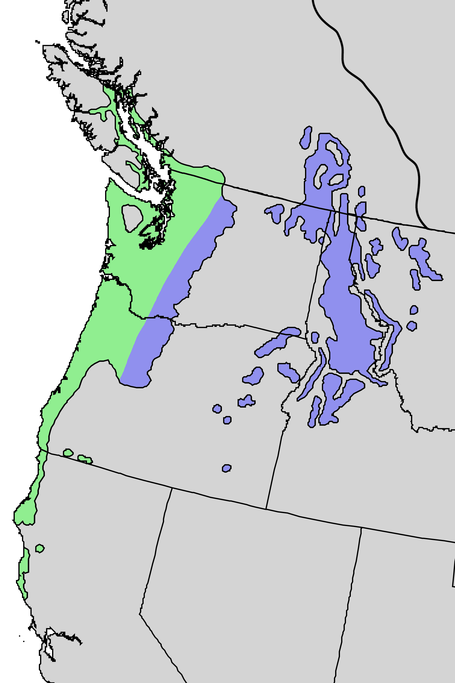 Natural distribution map for Abies grandis — Grand, lowland, white, silver, yellow, or stinking fir. Abies grandis ssp. grandis in green. Abies grandis ssp. idahoensis in blue.